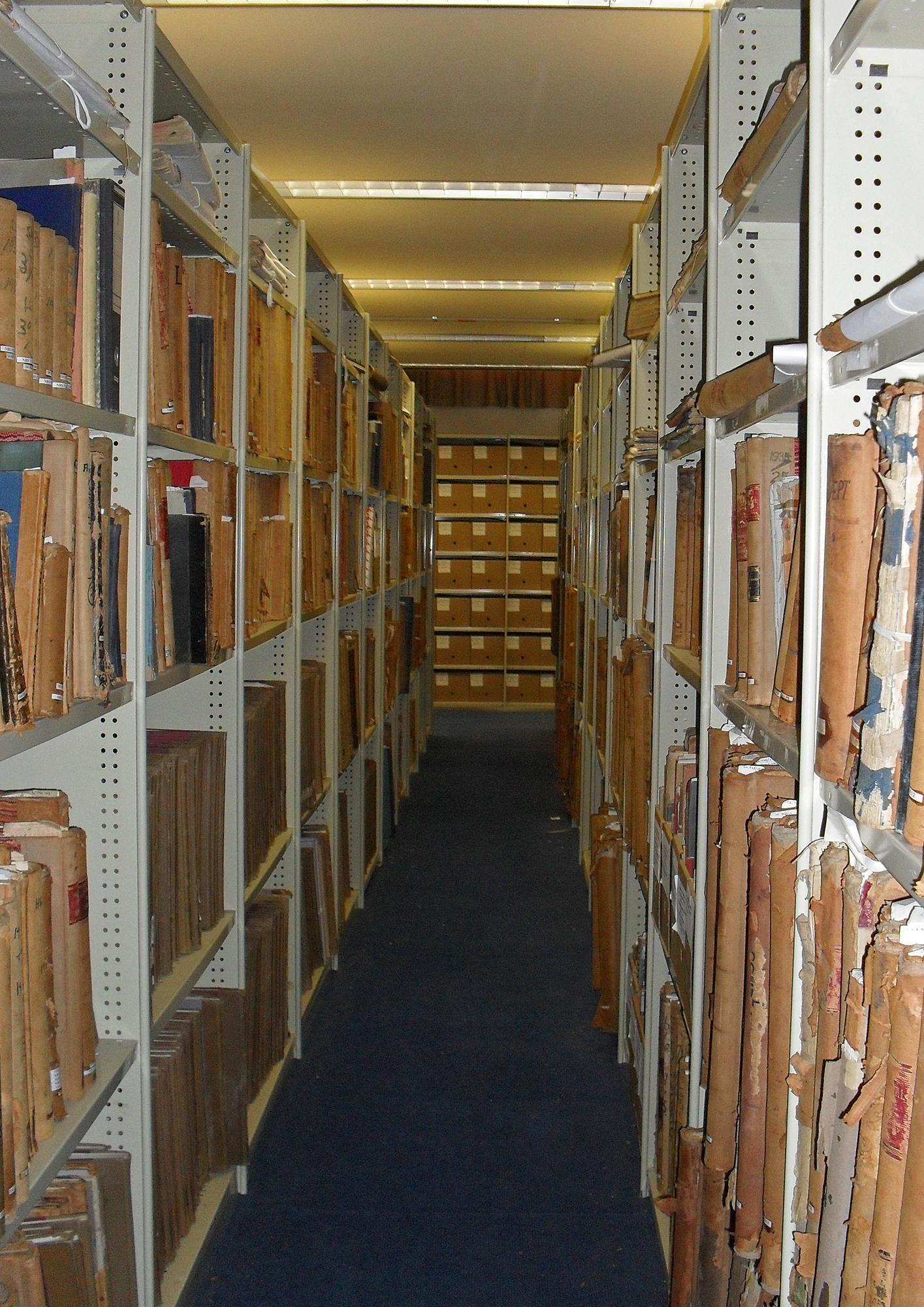 Charles Sturt University Regional Archives located at CSU's South Wagga campus.